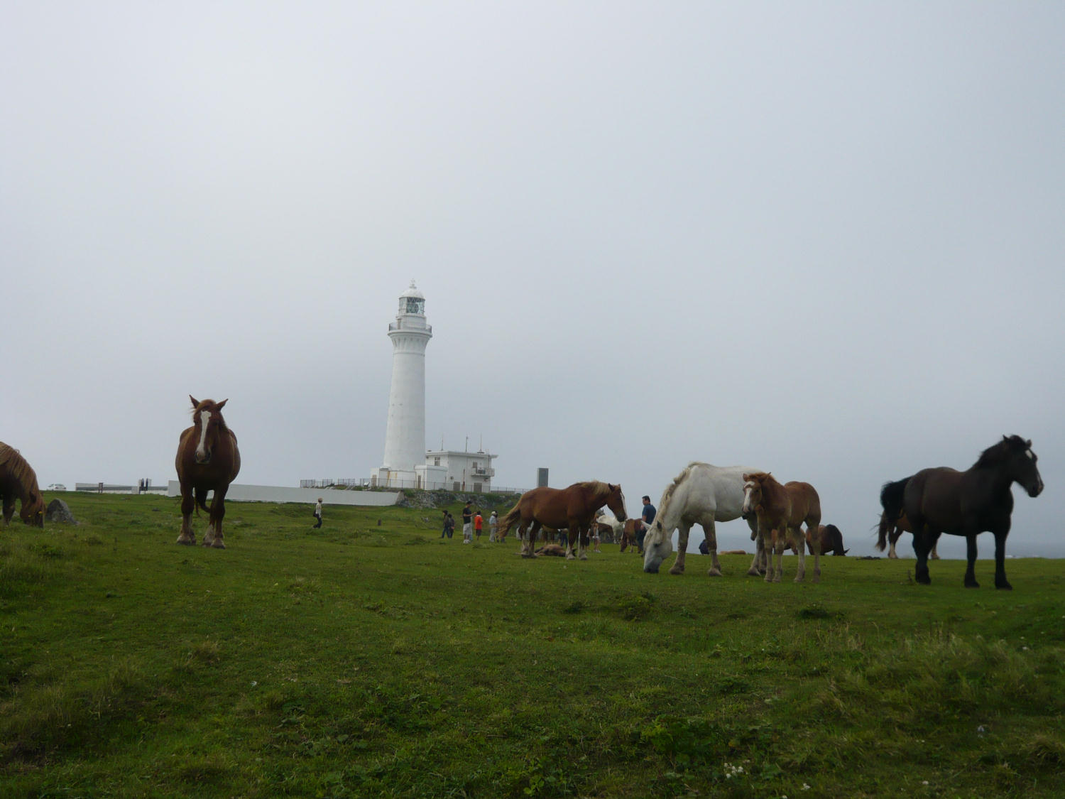 Shiriyazaki Lighthouse and kandachime